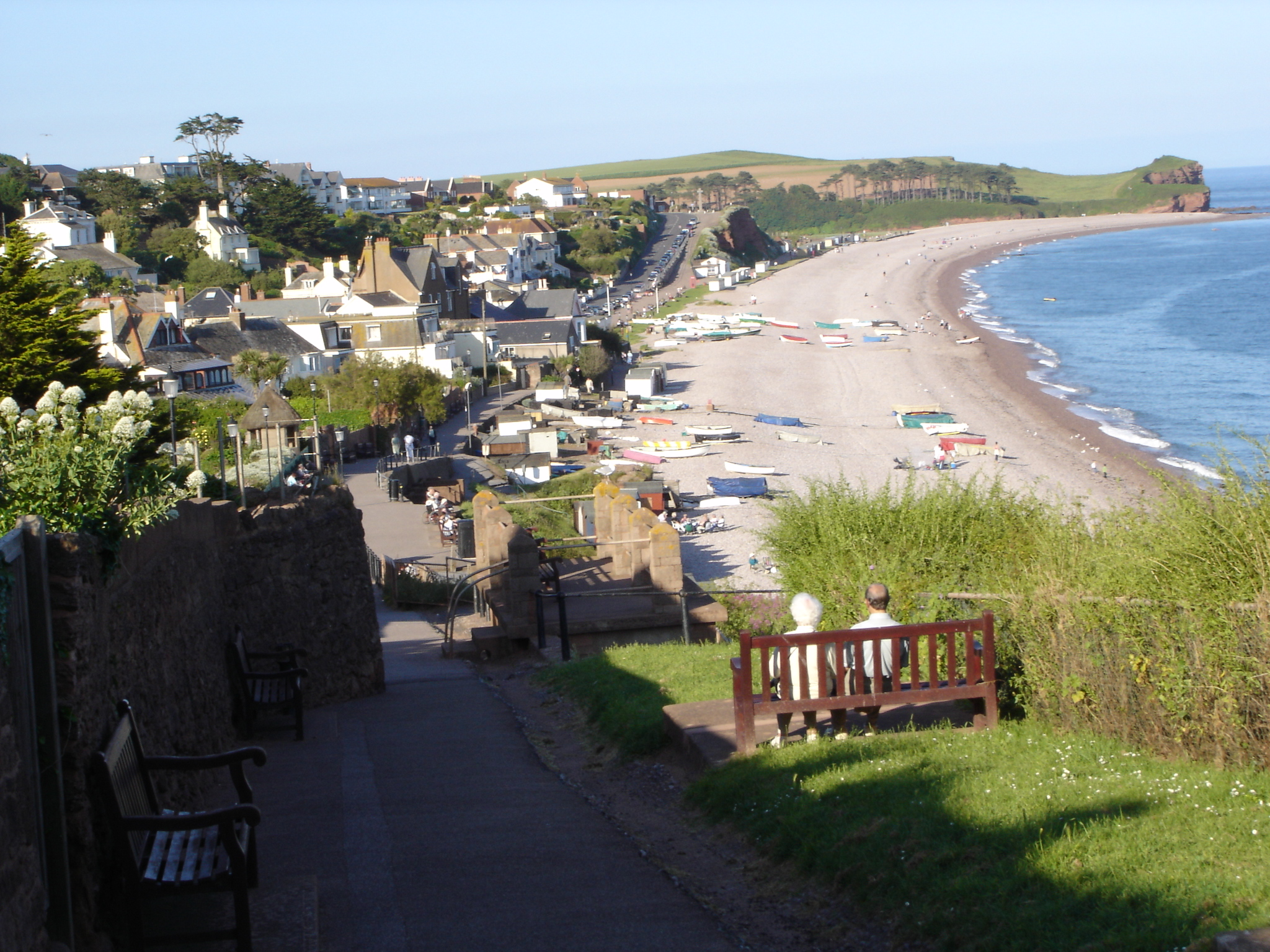 General view of Budleigh Salterton